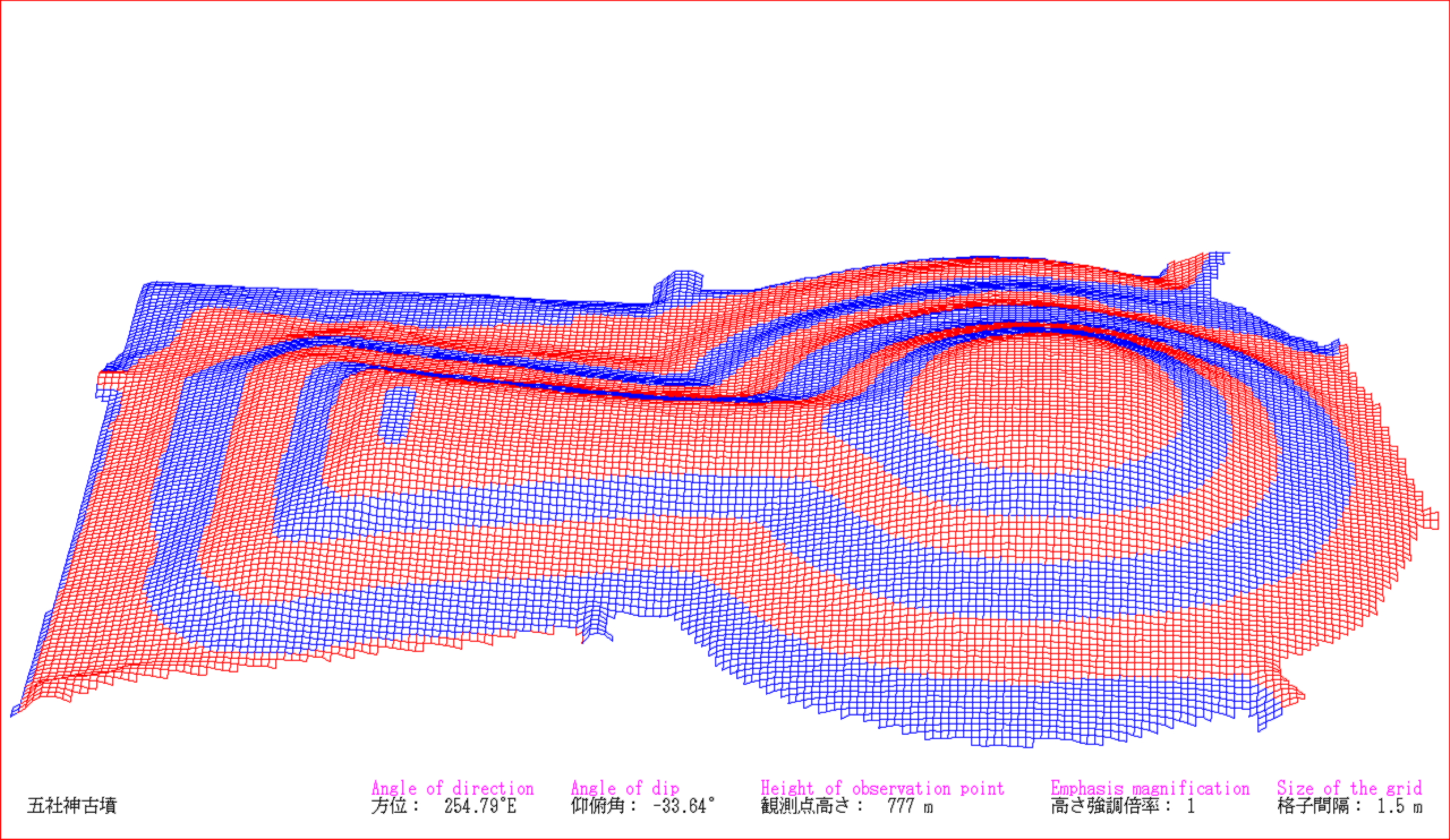 An example of keyhole-shaped mound in the Early Kofun period which was drawn in 3DCG. (Gosashi Kofun (Nara, Nara), 4th century). I who am a contributor drew the picture by a software which developed by myself. The survey map which I referred to depends on "「神功皇后 狭城盾列池上陵墳塋裾護岸その他整備工事区域の調査および墳丘外形調査」（付図）『書陵部紀要』第56号 宮内庁書陵部 (2005年）". This is a drawing of present situation (not a drawing of a restored mound). The drawing depends on combination of wire frame and height eight phases classification. Perspective projection.